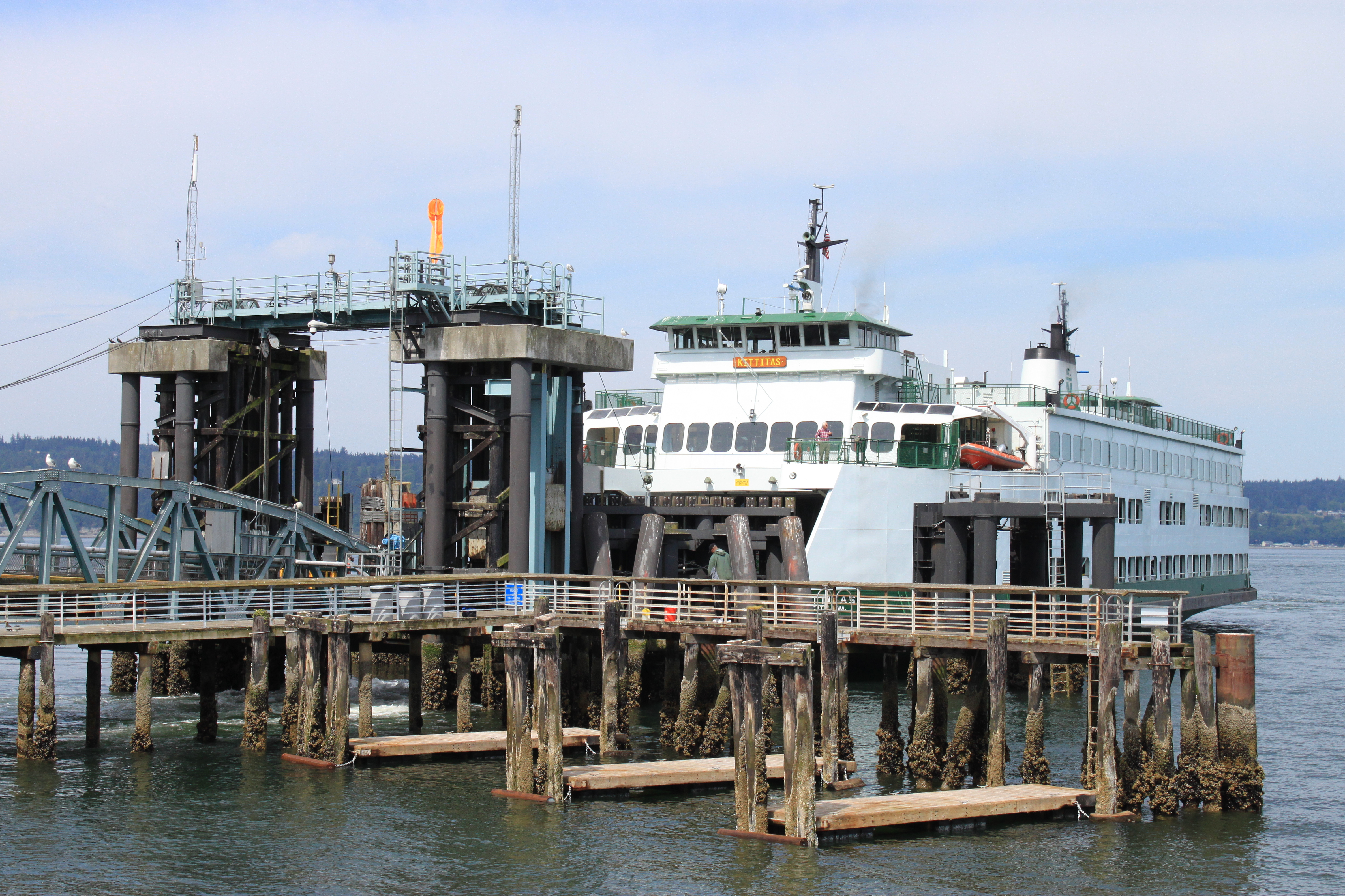 MV Kittitas, of the Washington State Ferries fleet, leaving the Mukilteo terminal.